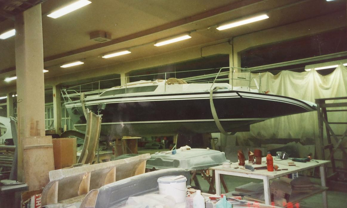 Ship contruction hall